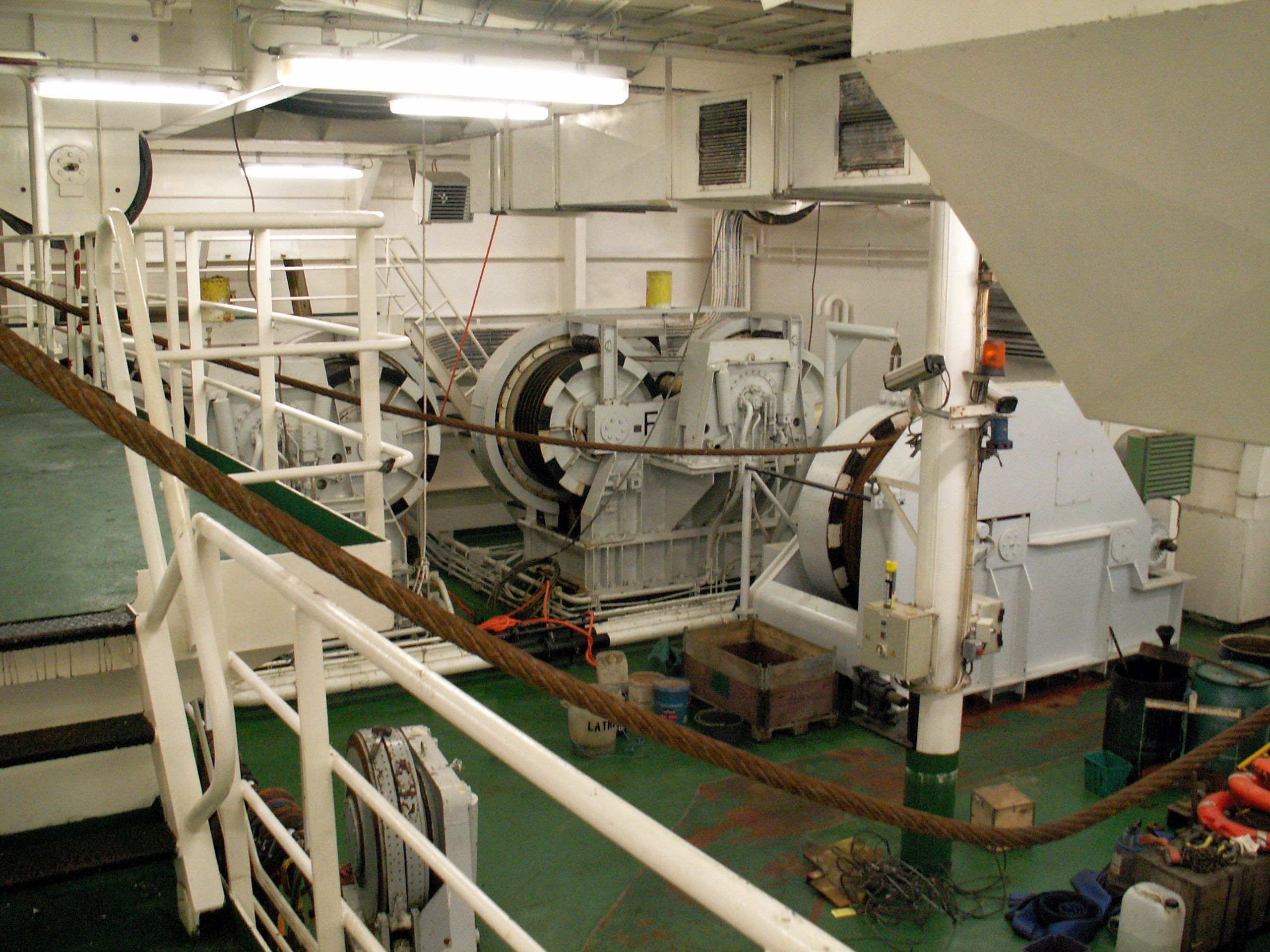 Photographed at Port of Rotterdam, The Netherlands